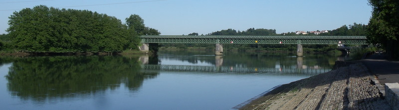 Urt bridge, France.